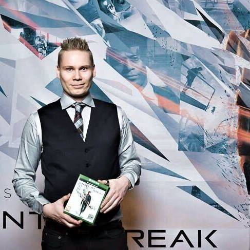 Ville Sorsa at Quantum Break release event.